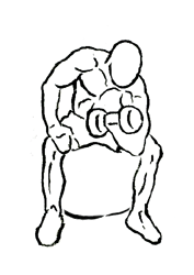 an exercise of biceps